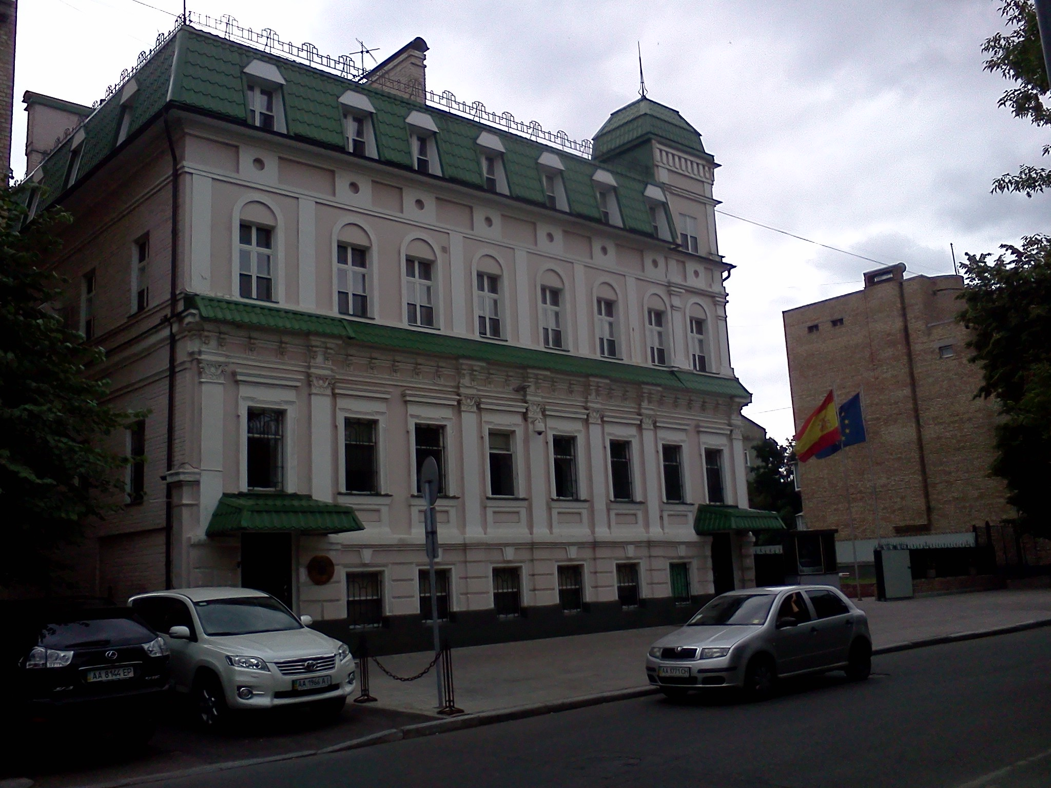 Embassy of Spain in Kyiv